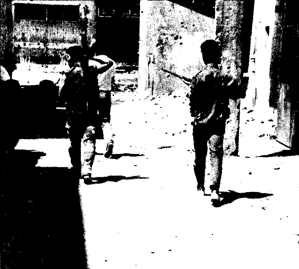 Hizballah fighters patrol Shia neighborhoods in southern Beirut in the 1980s.